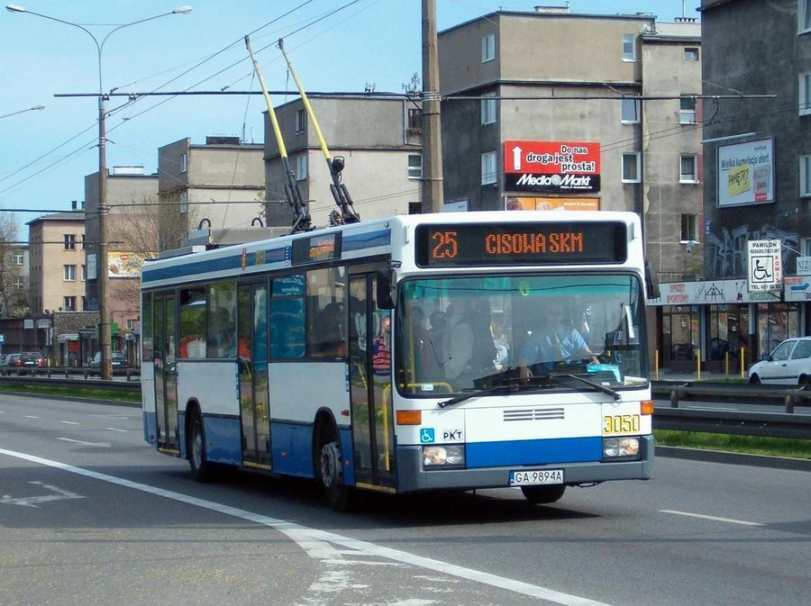 Mercedes-Benz O405NE trolleybus (#3050) in Gdynia, Poland. Built 1993.